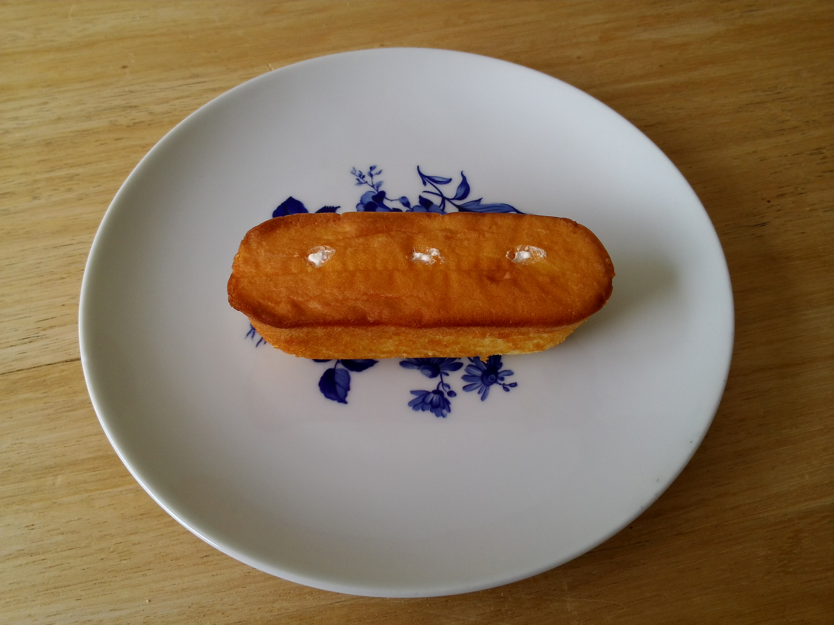 Bottom of Twinkie cake, showing the 3 holes used to inject the white cream filling.